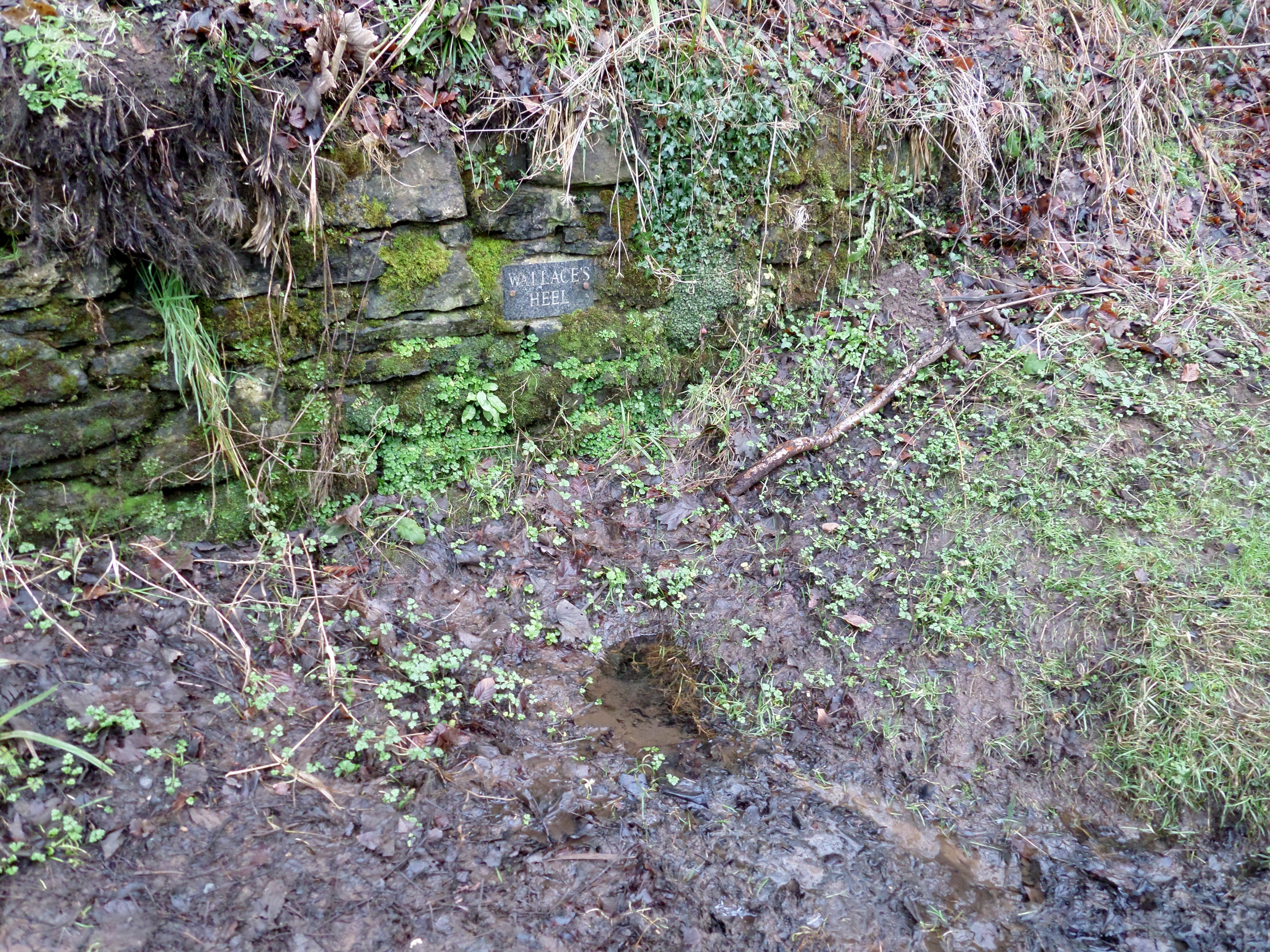 Wallace's Heel Well, River Ayr, Scotland. A brass ladle on a chain once hung here. William Wallace is said to have created this depression and well when he jumped onto the rock whilst escaping from English soldiers.